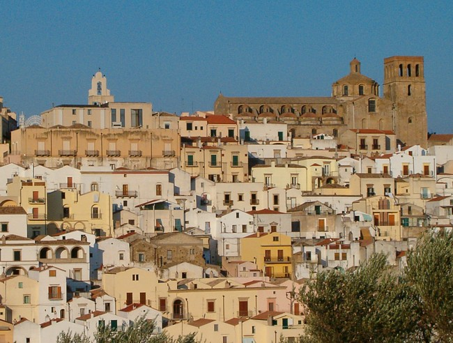 View on Ferrandina picture taken by user Idéfix, july 2003